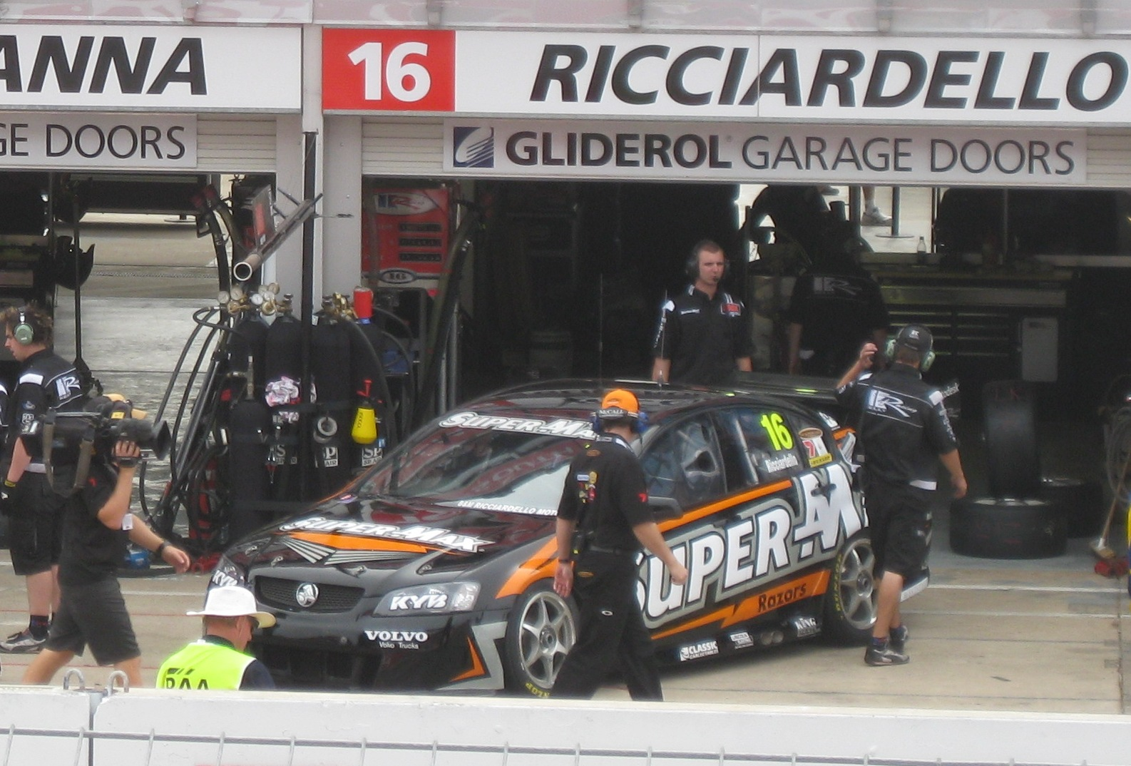 The Holden VE Commodore of Kelly Racing as driven by Tony Ricciardello at the 2010 Clipsal 500 Adelaide